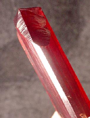 Realgar Locality: Jiepaiyu Mine (Shimen Mine), Shimen As-(Au) deposit, Shimen County, Changde Prefecture, Hunan Province, China (Locality at ) Size: small cabinet, 7 x 4.5 x 1.5 cm Realgar WOW! The pics pretty much say it all...except that in person it is actually almost TRANSPARENT and not just translucent as it lokos here.